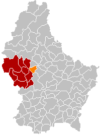 Own edit of Kanton RedangeLocatie.png